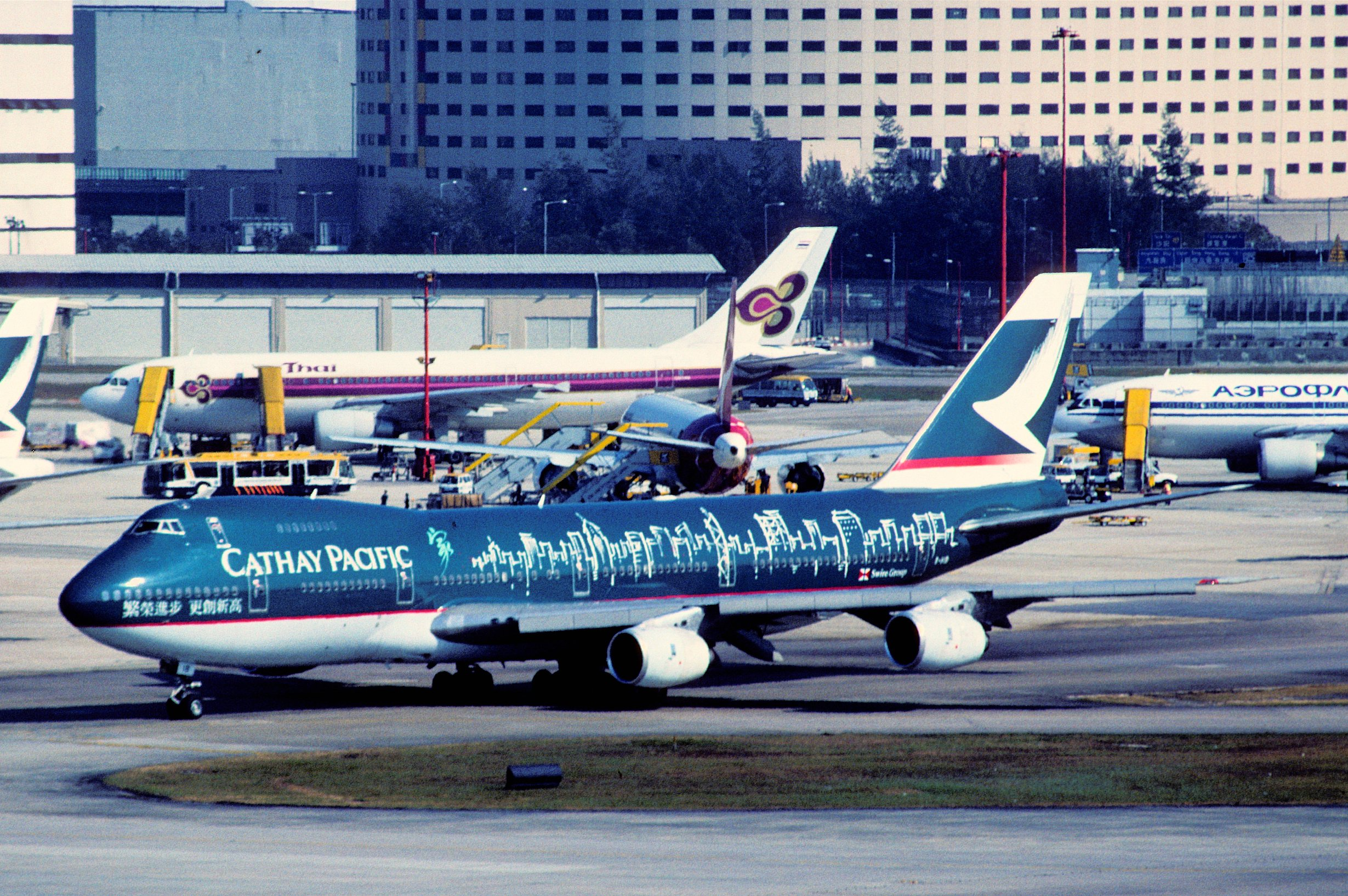 This Boeing 747-267B took its first flight on June 30, 1980...(c/n 22149/ 466) 16/07/1980 Cathay Pacific VR-HIB 01/07/1997 Cathay Pacific B-HIB 01/12/1999 Air Atlanta Icelandic TF-ATC 02/05/2001 Iberia TF-ATC 26/05/2002 Air Atlanta Icelandic TF-ATC 01/01/2003 AirAsia TF-ATC used for pilgrimage flights to Saudi Arabia 01/03/2003 Air Atlanta Icelandic TF-ATC scrapped at Kemble 07/2004